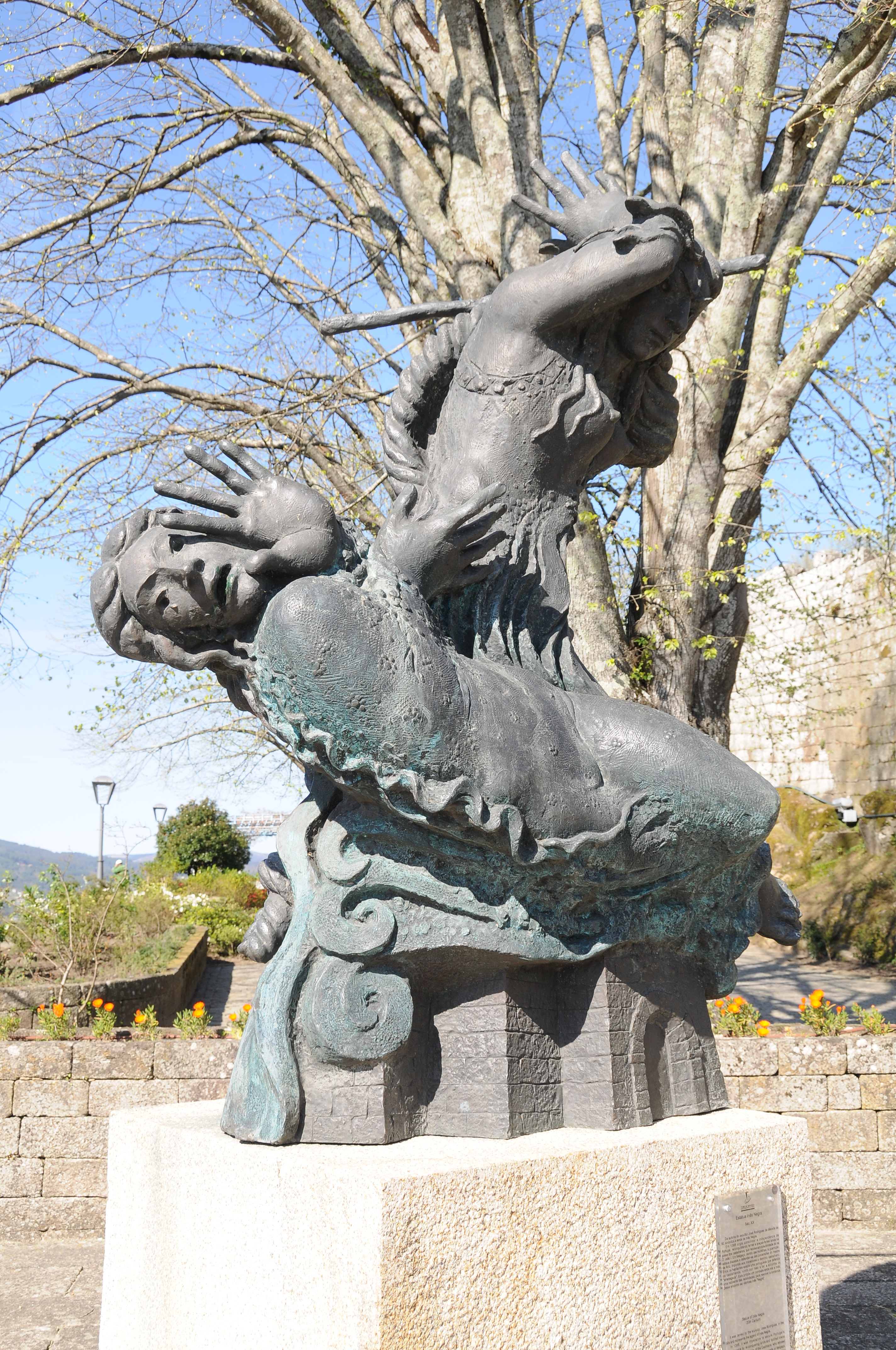 Ines Negra Statue in Melgaço, Portugal